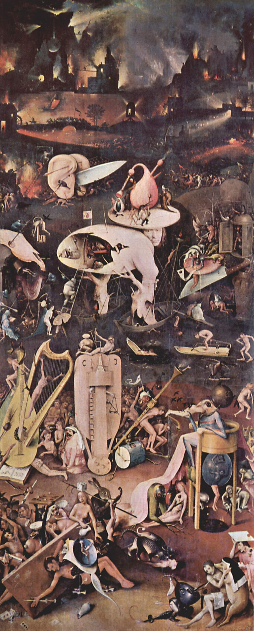 The Garden of Earthly Delights, inner right wing (Hell)